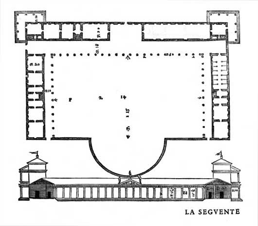 Villa Repeta in Campiglia dei Berici, Province of Vicenza. Project by Andrea Palladio for the destroyed villa from I quattro libri dell'architettura, 1570.